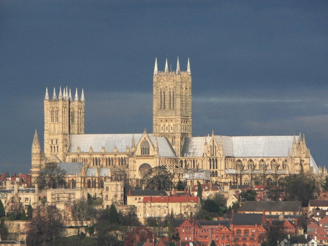 Lincoln Cathedral. Christmas Day 2005